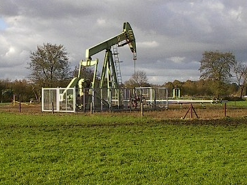 Oil well pump at Emlichheim, Lower Saxony, Germany.